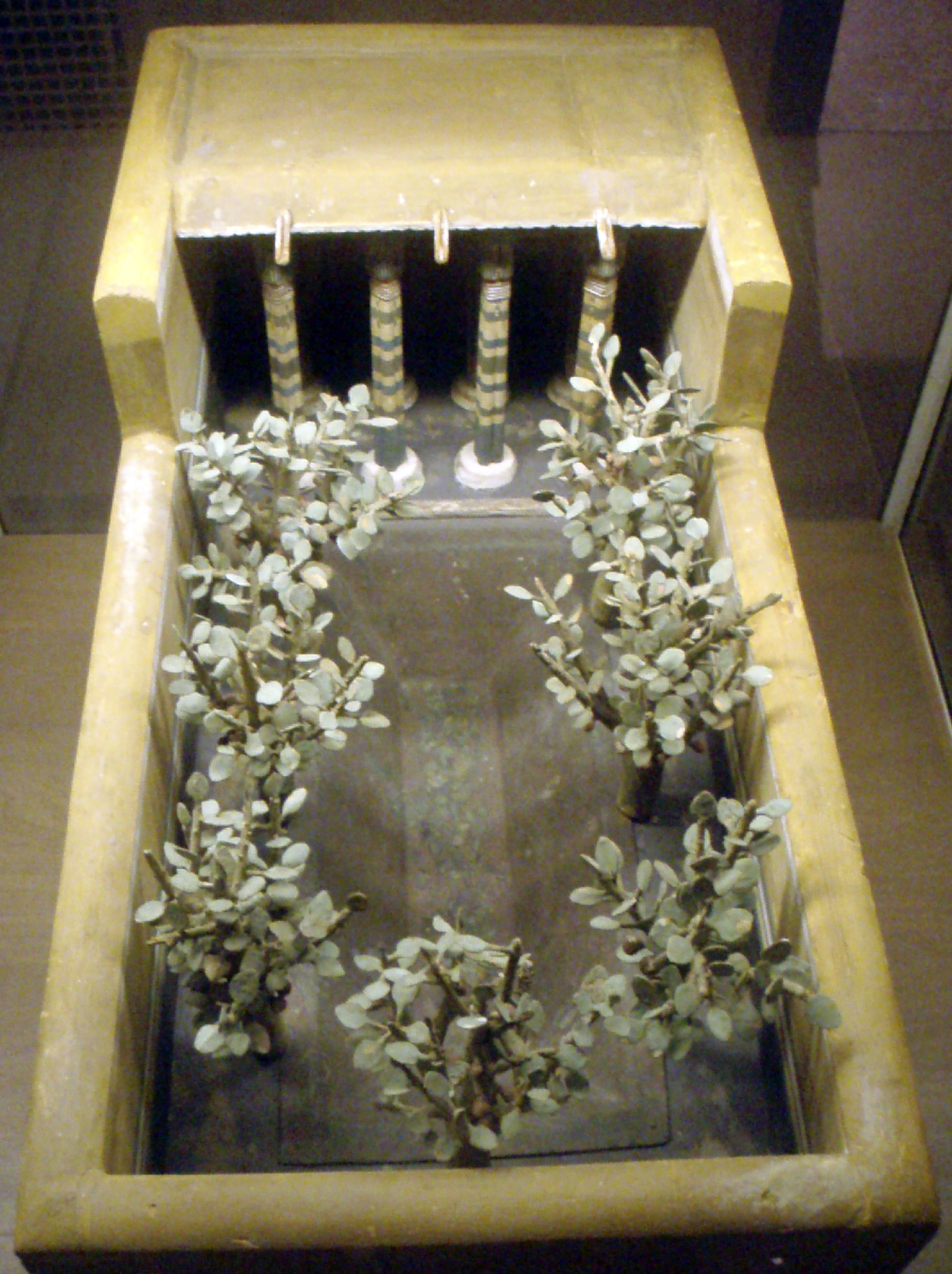 A funerary model of a garden, dating the 11th dynasty, circa 2009-1998 B.C. Painted and gessoed wood, originally from Thebes.